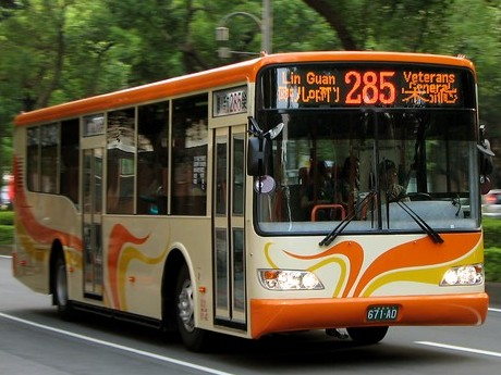 Metropolitan Transport Corporation Route 285 (671-AD).